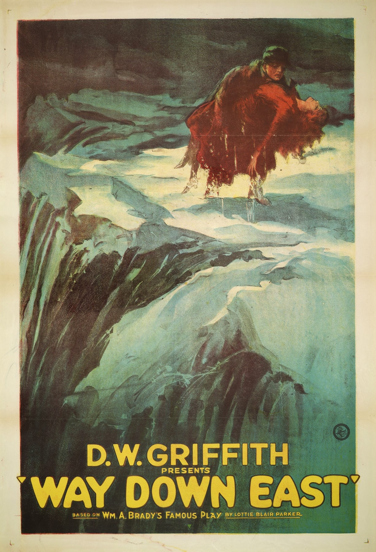 Poster from the 1920 film Way Down East.